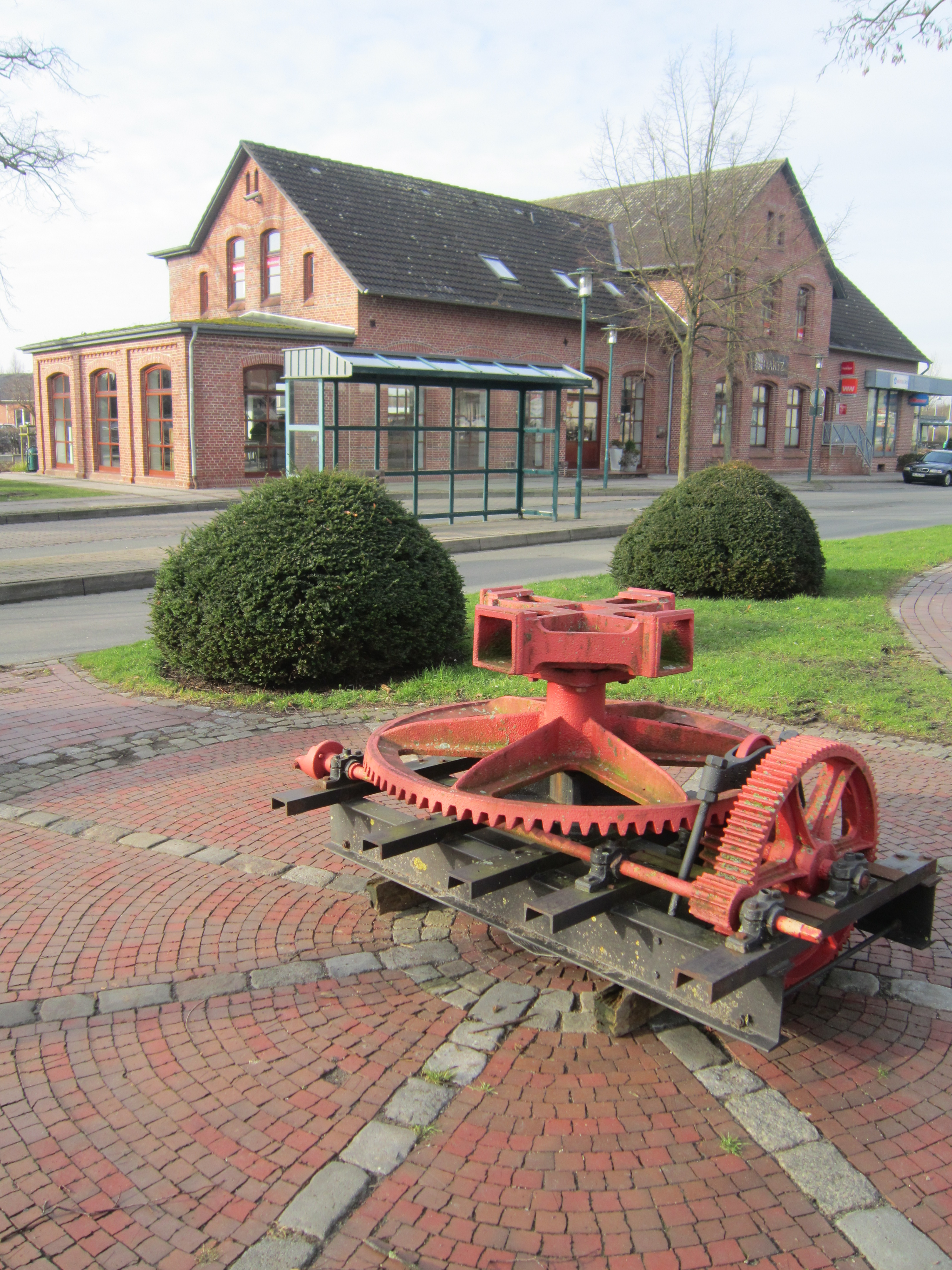 Lohne train station